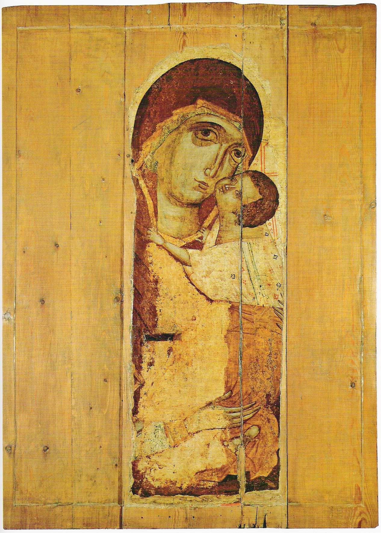 Theotokos Eleusa of Tolga of Near Kubenskoe. Icon from Church of Resurrection from Near Kubenskoe Village of Vologda Uezd.